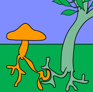 Icon of a mushroom with mycorrhizal ecology